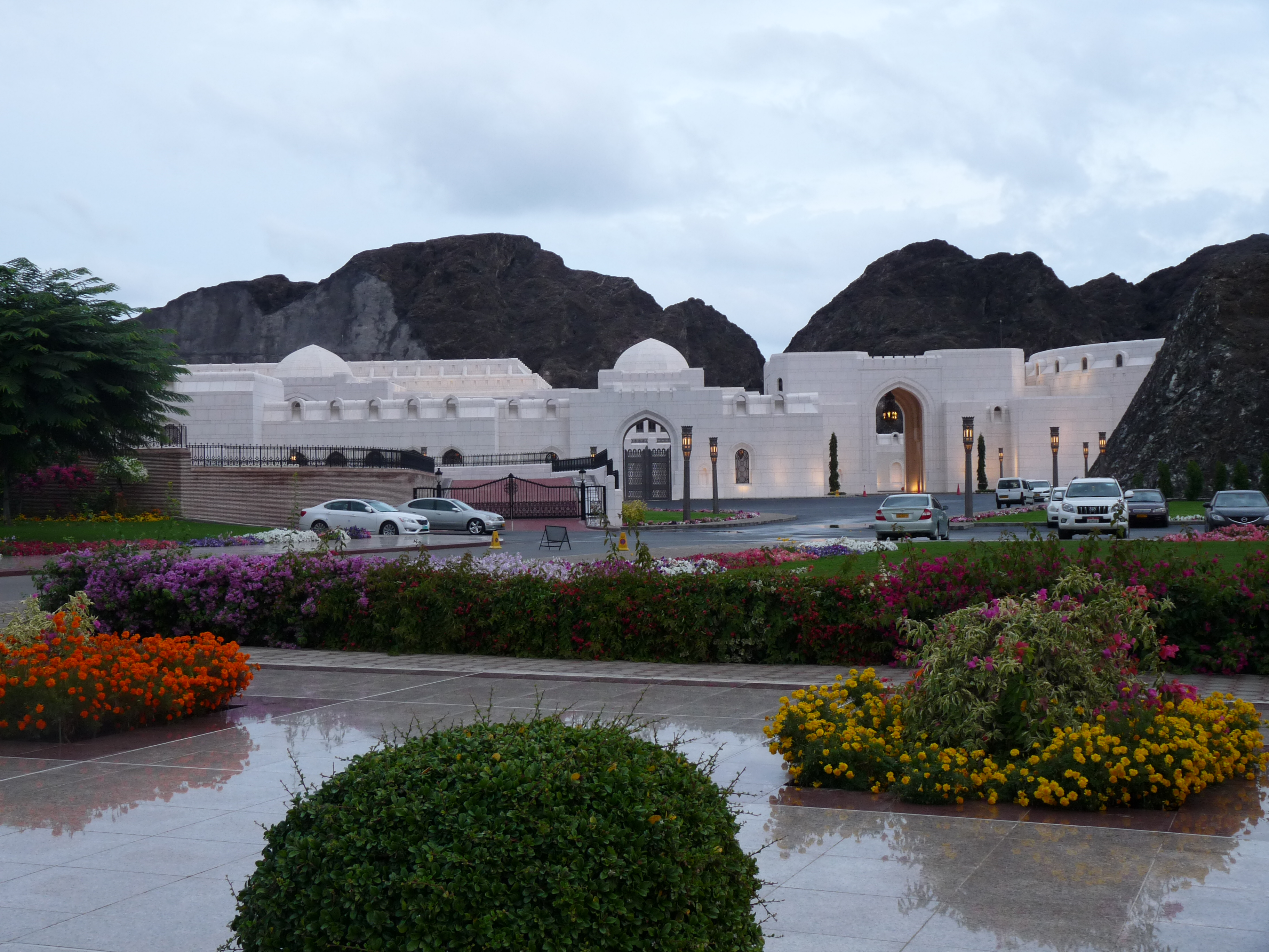 Qasr Al Alam Royal Palace in Muscat (Oman). )